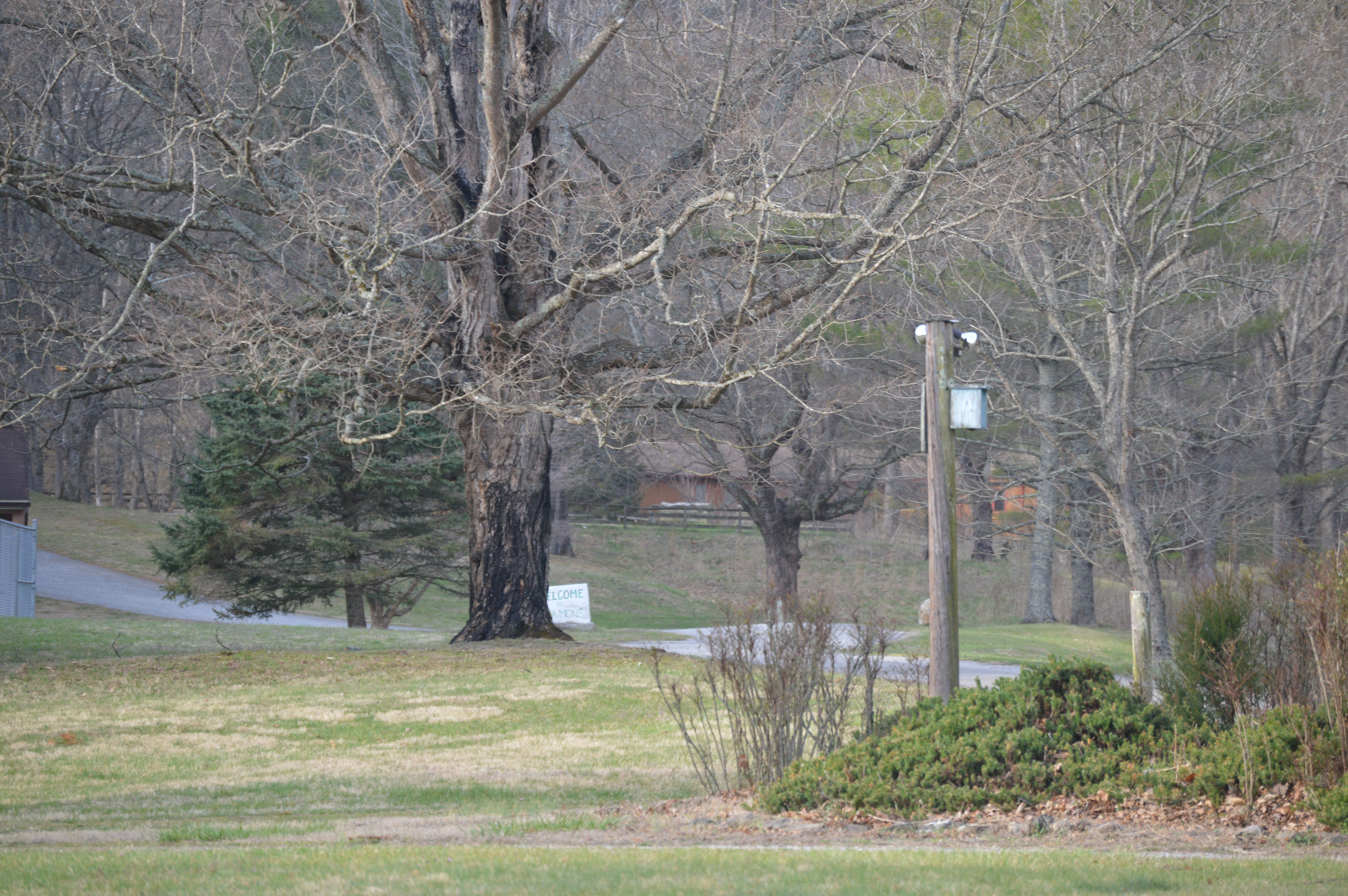 Distant view from the north of the Crockett Springs Cottage, located on Alleghany Spring Road west of Piedmont in Montgomery County, Virginia, United States. Built in 1889, it is listed on the National Register of Historic Places.